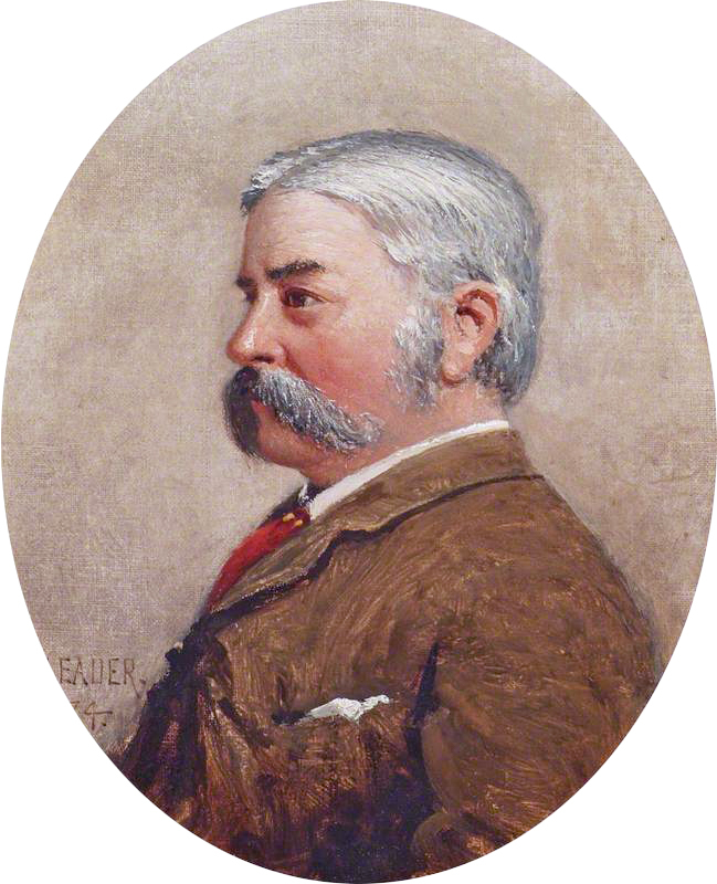 Self-portrait oil on canvasmedium QS:P186,Q296955;P186,Q12321255,P518,Q861259 Height: 34.5 cm (13.5 ″); Width: 29.7 cm (11.6 ″) dimensions QS:P2048,34.5U174728;P2049,29.7U174728 Aberdeen Art Gallery Parent institutionAberdeen Art Gallery & MuseumsLocationAberdeen, United KingdomCoordinates57° 08′ 53.49″ N, 2° 06′ 09.77″ W Established1885Web page control : Q4666883 VIAF: 156765494 ISNI: 0000 0001 2192 5852 ULAN: 500304412 LCCN: n50050112 NLA: 36534393 WorldCat institution QS:P195,Q4666883 Inv. No.: ABDAG002499 credit line bequeathed by Alexander Macdonald, 1901